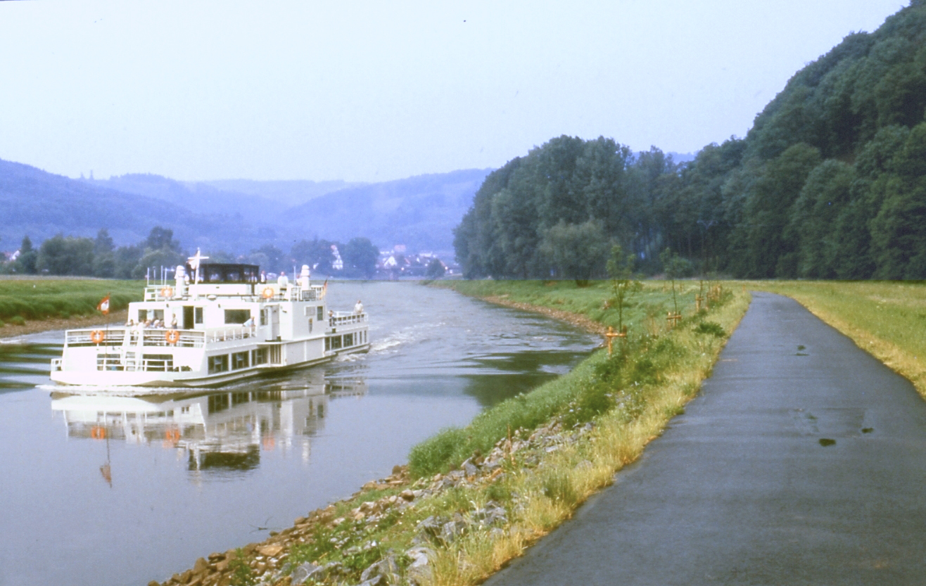 Weserradweg (river Weser cycle route) in the upper part of the Weser valley between the villages of Oedelsheim and Gieselwerder